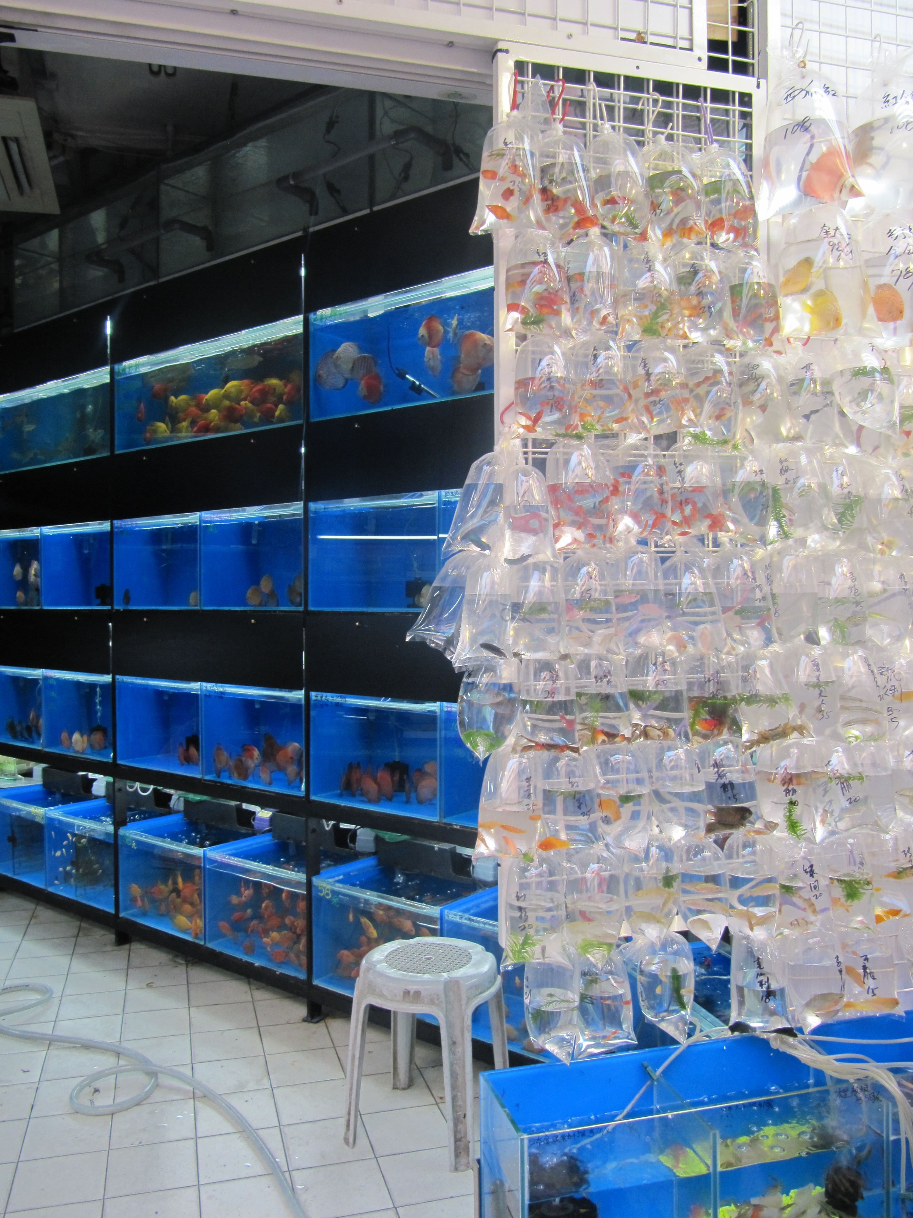 Goldfish Market